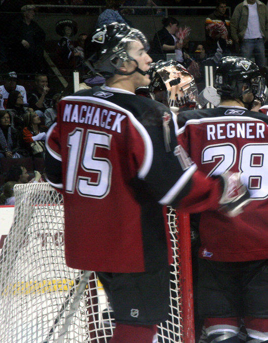 Spencer Machacek with the Vancouver Giants in December 2007.